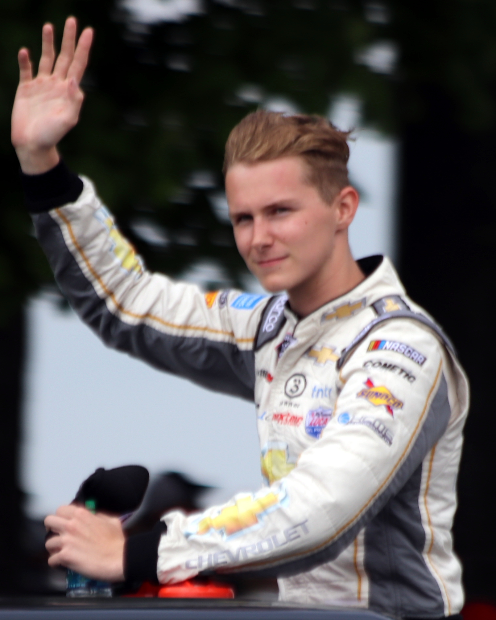 NASCAR Xfinity Series driver Matt Tifft waves to fans at the 2018 Road America race.